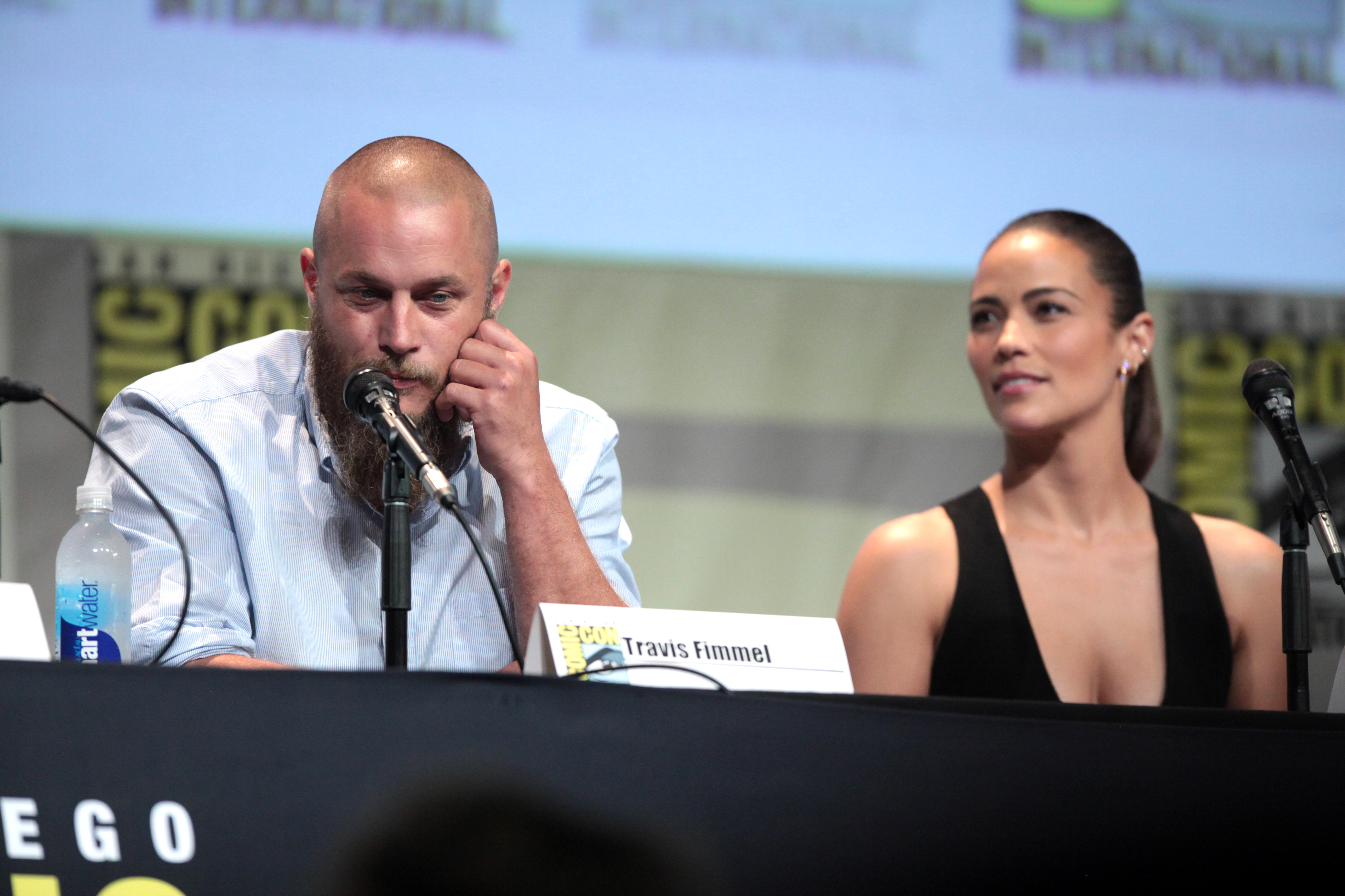 Travis Fimmel and Paula Patton speaking at the 2015 San Diego Comic Con International, for "Warcraft", at the San Diego Convention Center in San Diego, California.